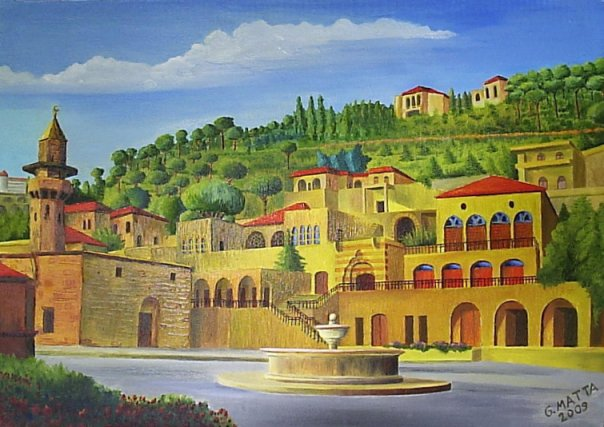 DEIR EL QAMAR, Oil on canvas, March 2009. Size: 755x530mm